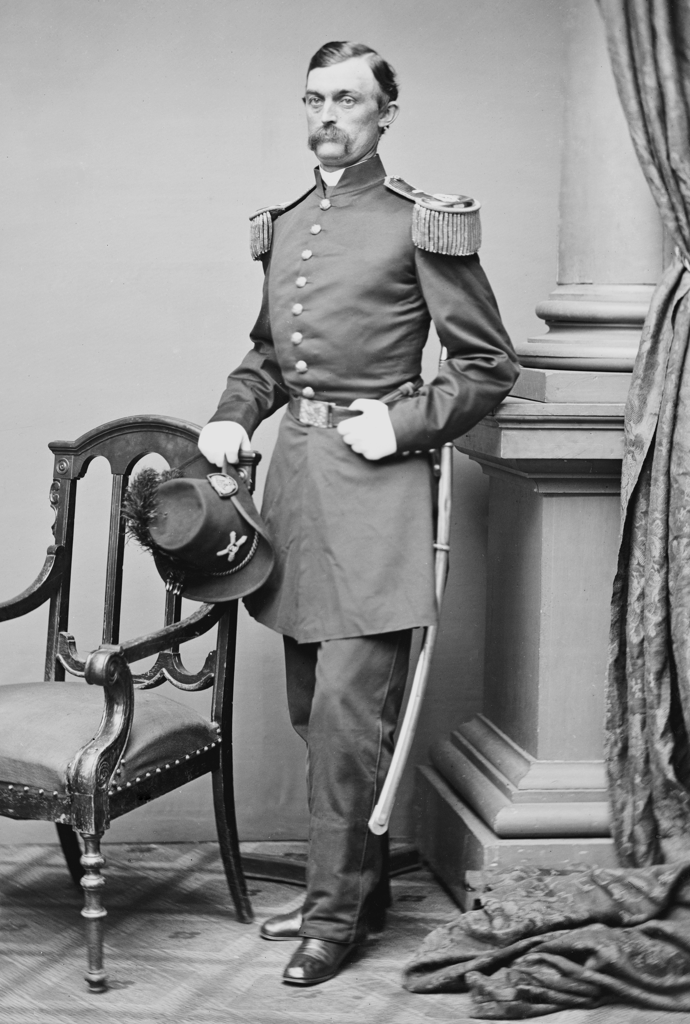 Gen. Charles Griffin (1825 - 1867) (as Captain), career officer in the United States Army and a Union general in the American Civil War. He rose to command a corps in the Army of the Potomac and fought in many of the key campaigns in the Eastern Theater.